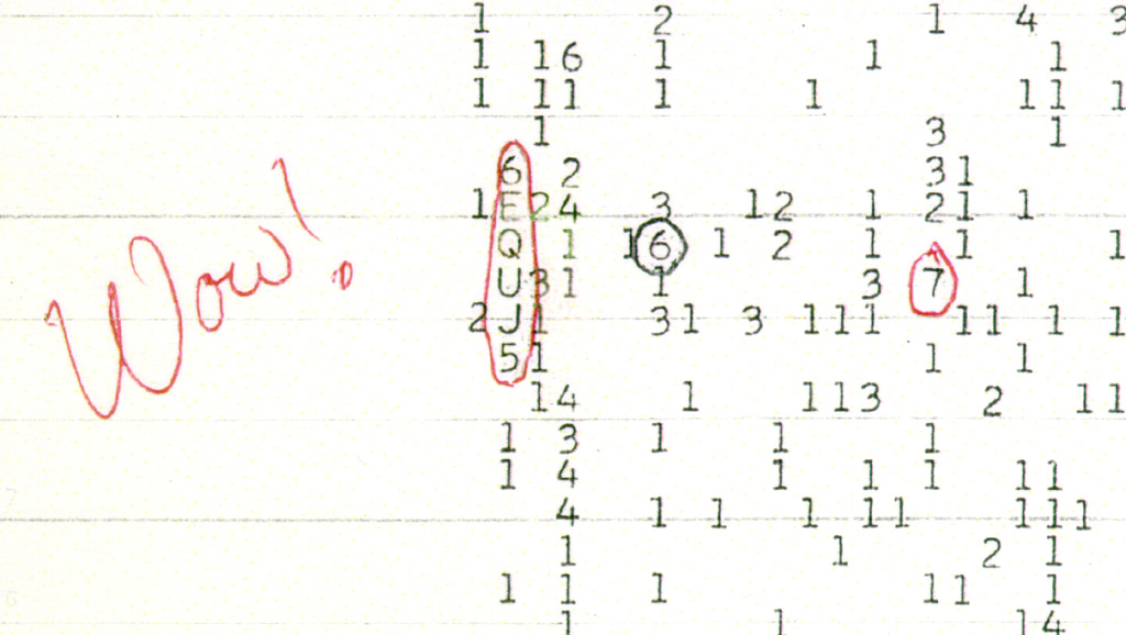 A scan of a color copy of the original computer printout, taken several years after the 1977 arrival of the Wow! signal.